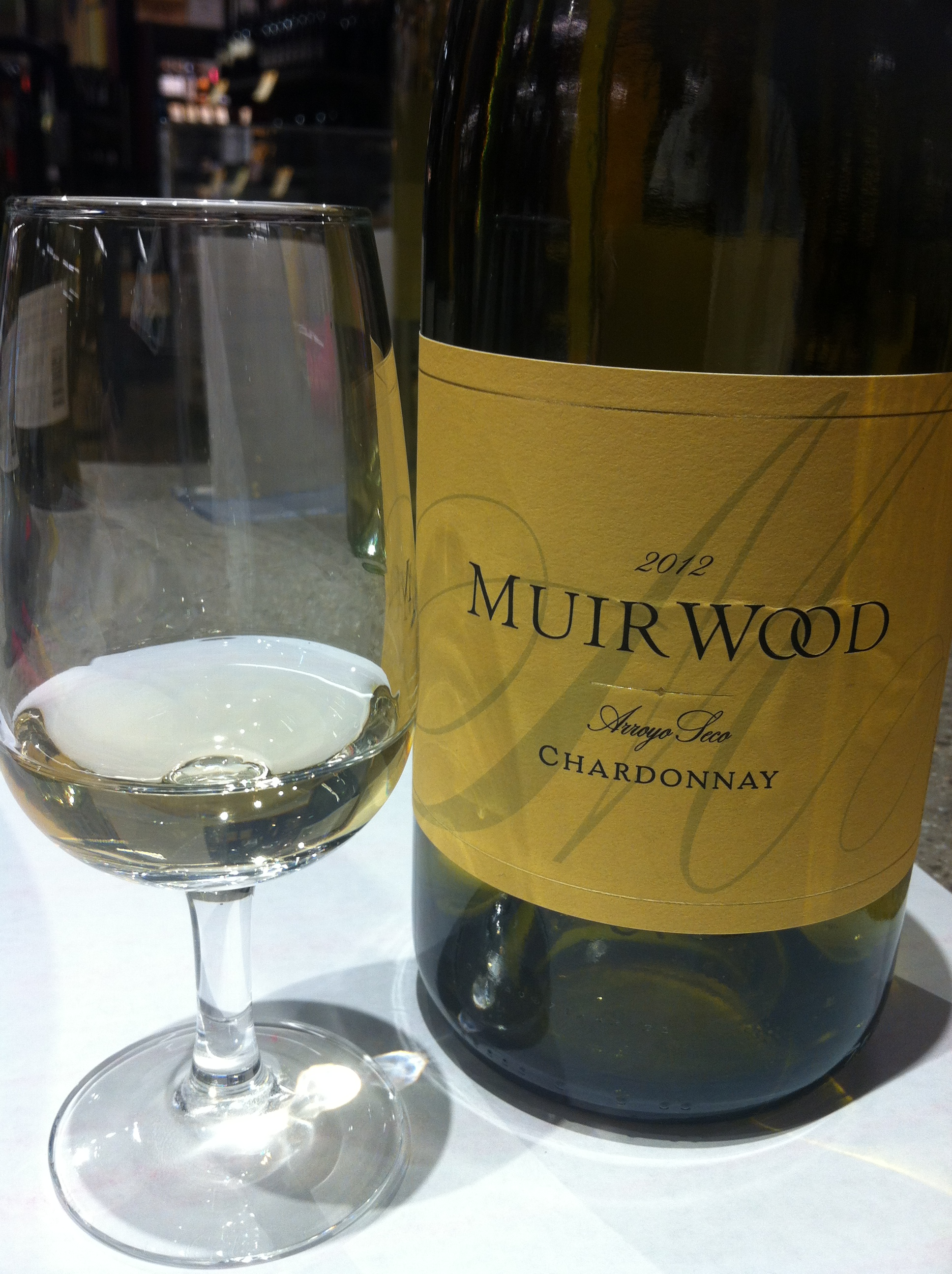 California Chardonnay from the Arroyo Seco AVA of the Central Coast.